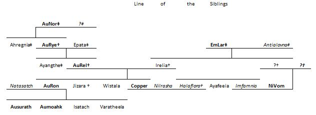 The Family tree of the three siblings in E. E. Knight's Age of Fire books. Italicized names married into the family Bold names are male †Known to be dead ‡Status unknown ?Name unknown